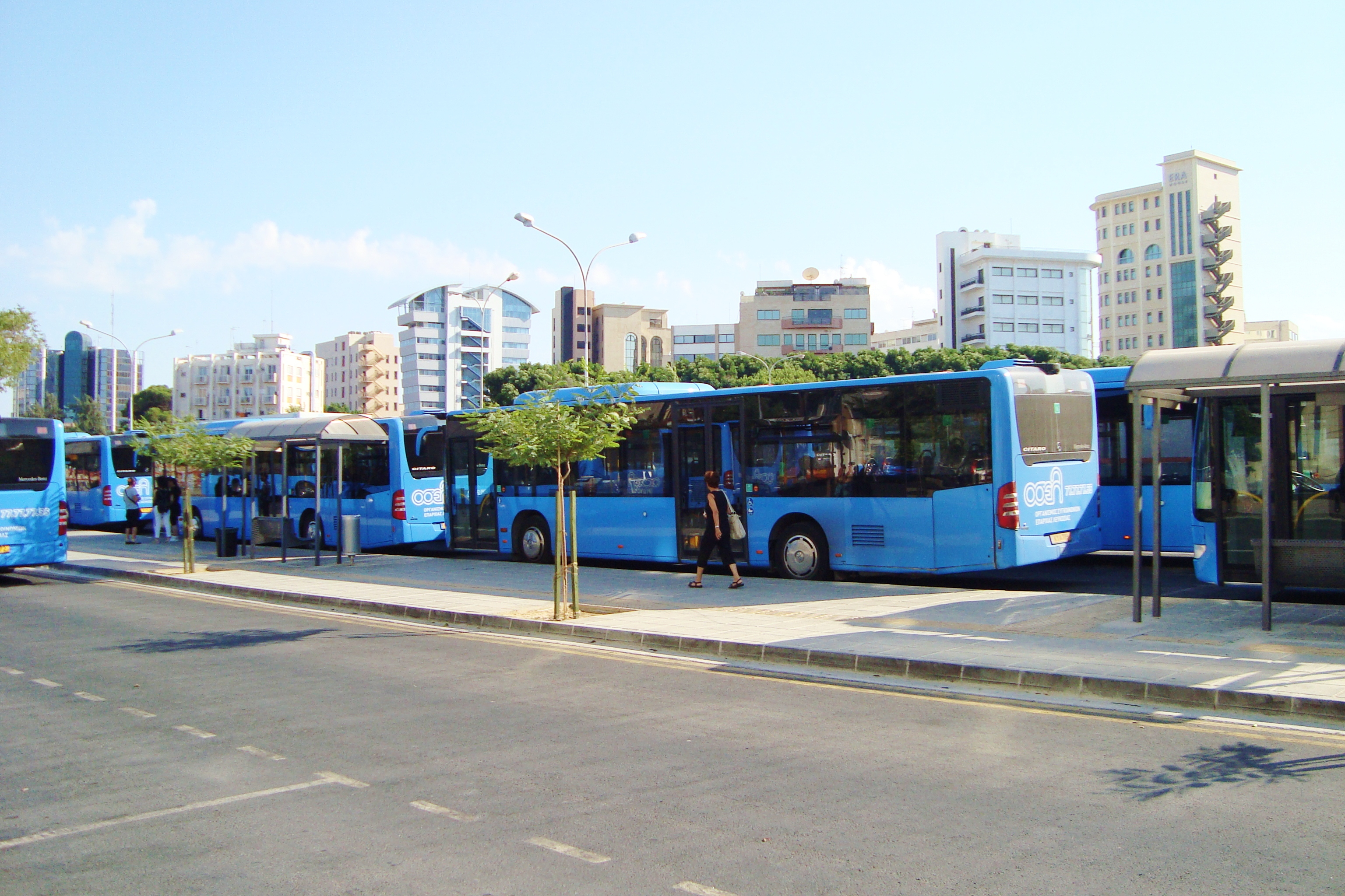 Nicosia public blue buses in Solomos Square station Republic of Cyprus